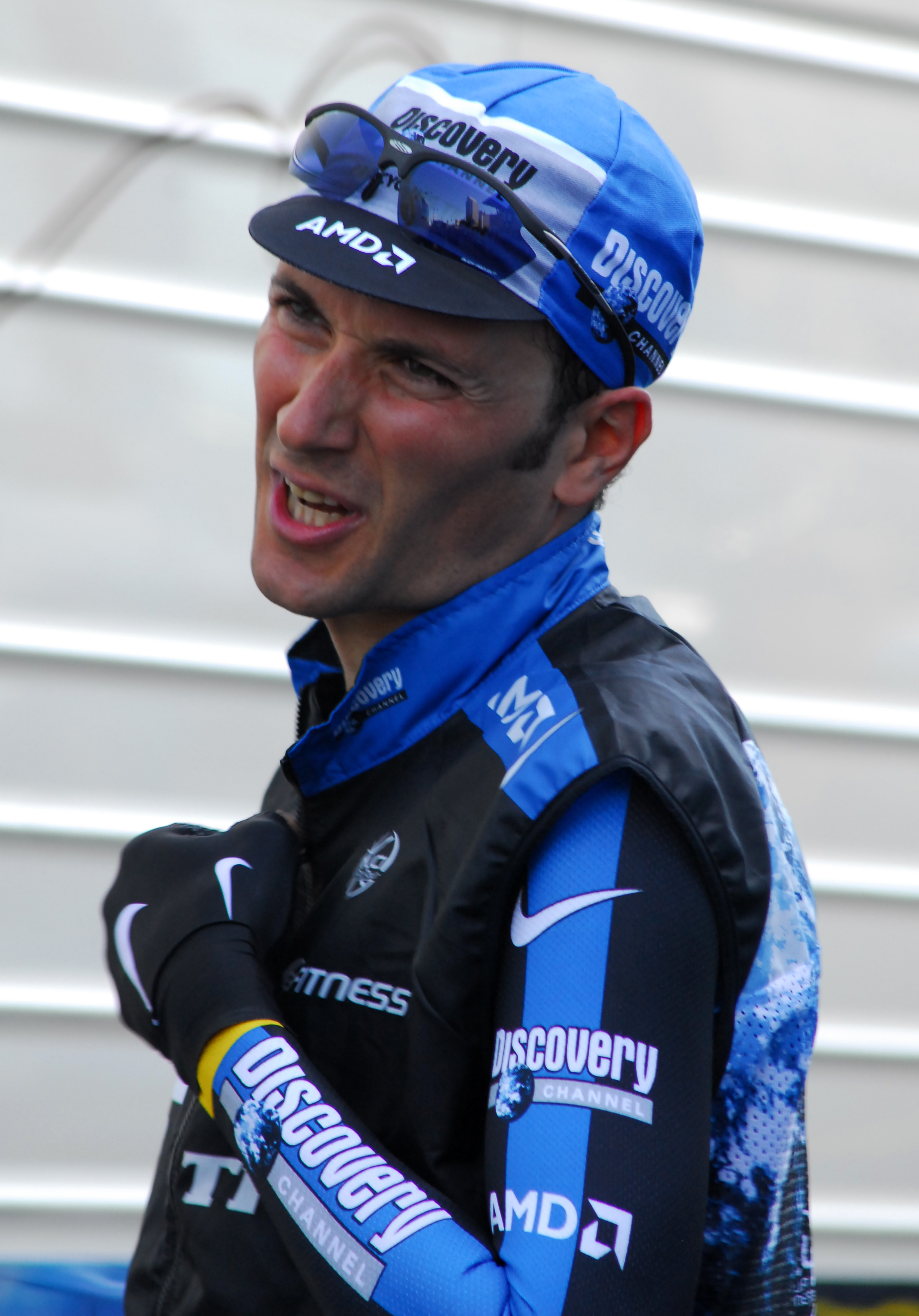 Ivan Basso reacts to his ride in the prolgoue of the 2007 Tour of California.